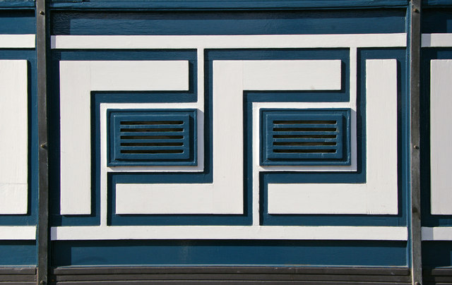 Art Deco Design at Southgate Station, London N14 The station building and surroundings have been refurbished and this design with its striking blue and white paint is quite a feature.